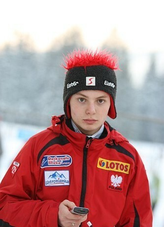 FIS Ski Jumping World Cup in Zakopane, 2008. Thursday trainings: Jan Ziobro